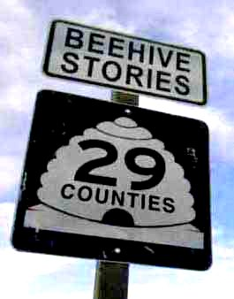 BYU's Department of Theatre and Media Arts presentation of Beehive Stories, a series of brief documentaries on each of Utah's counties (edited by mwilson3).